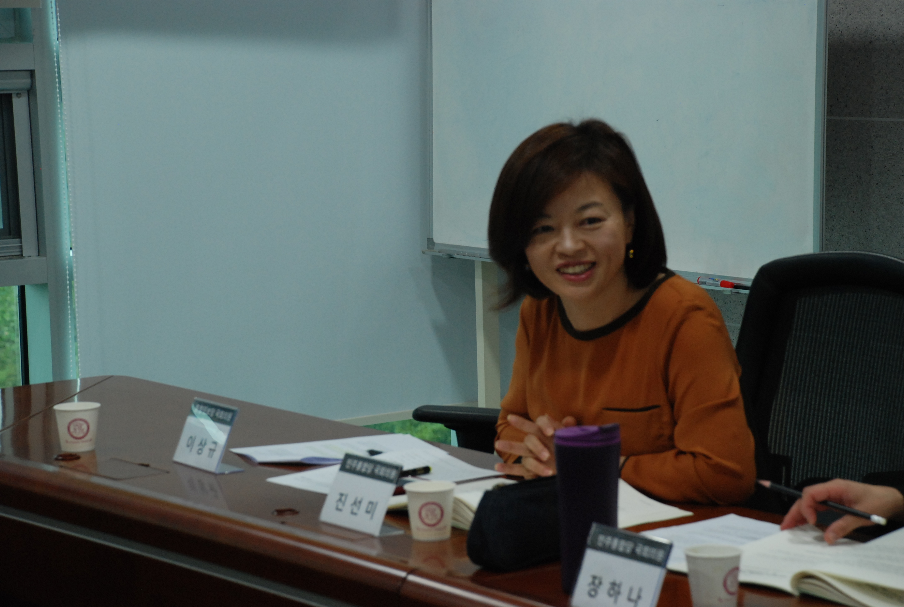 Jin Sunmee at National Assembly Member's Office Building in 2012.